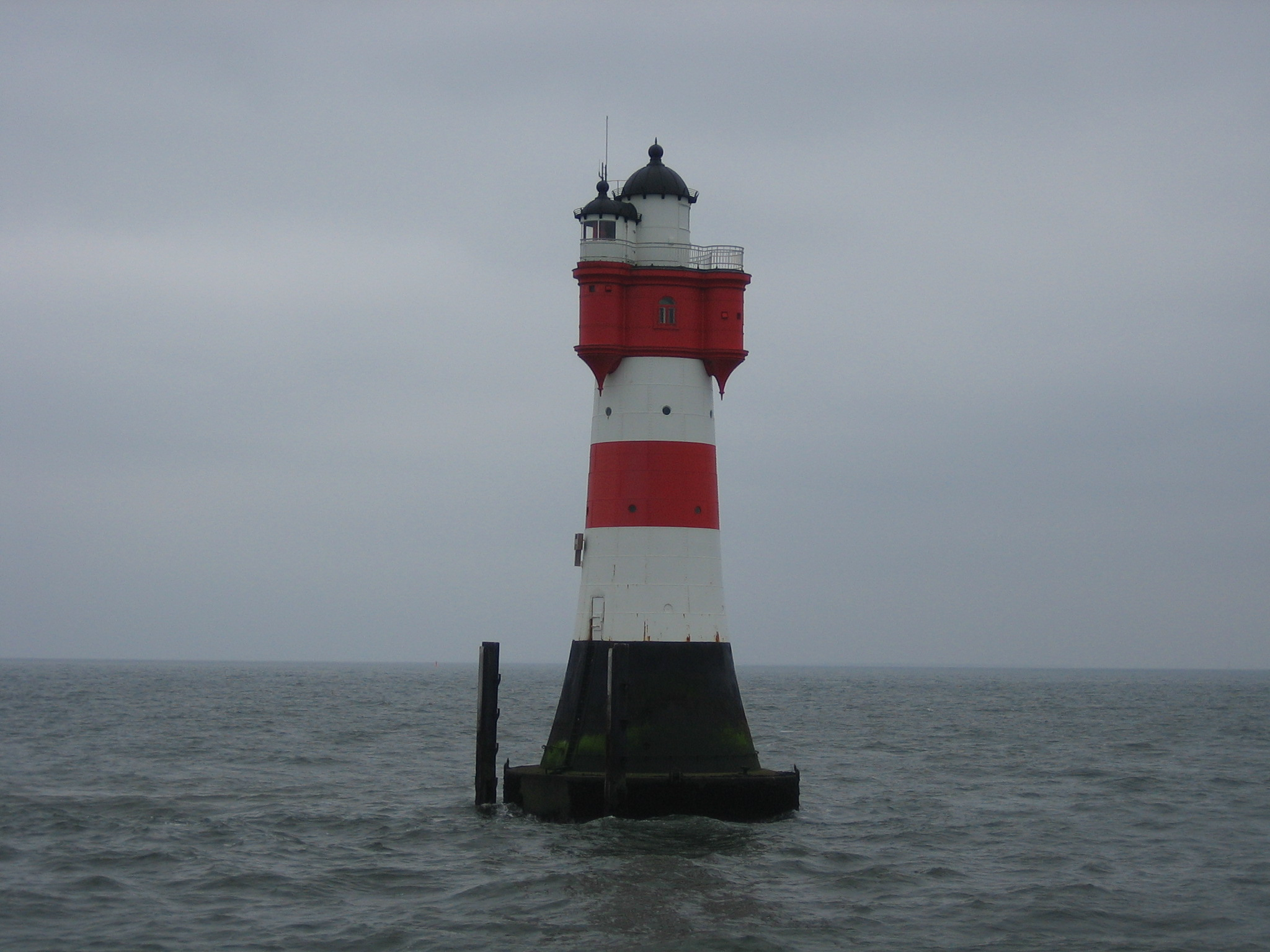 This is a self-taken picture of the lightfire Roter Sand near the german coast, near Bremerhaven. Photograph by Tim Rausch.